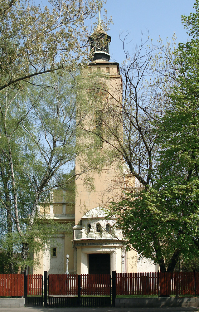 Reformed Church, Diósgyőr-Vasgyár, Miskolc, Hungary